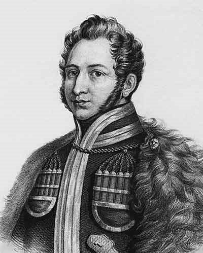 Prince Pavel Tsitsianov